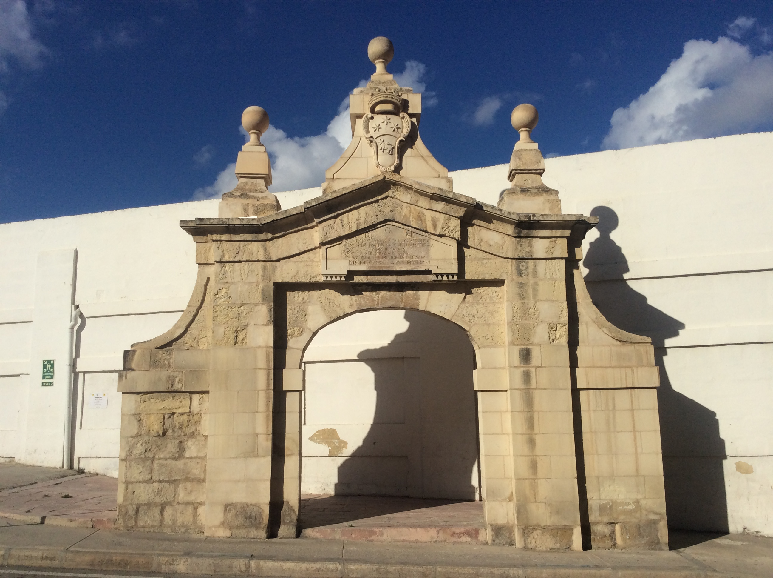 Places in Gzira